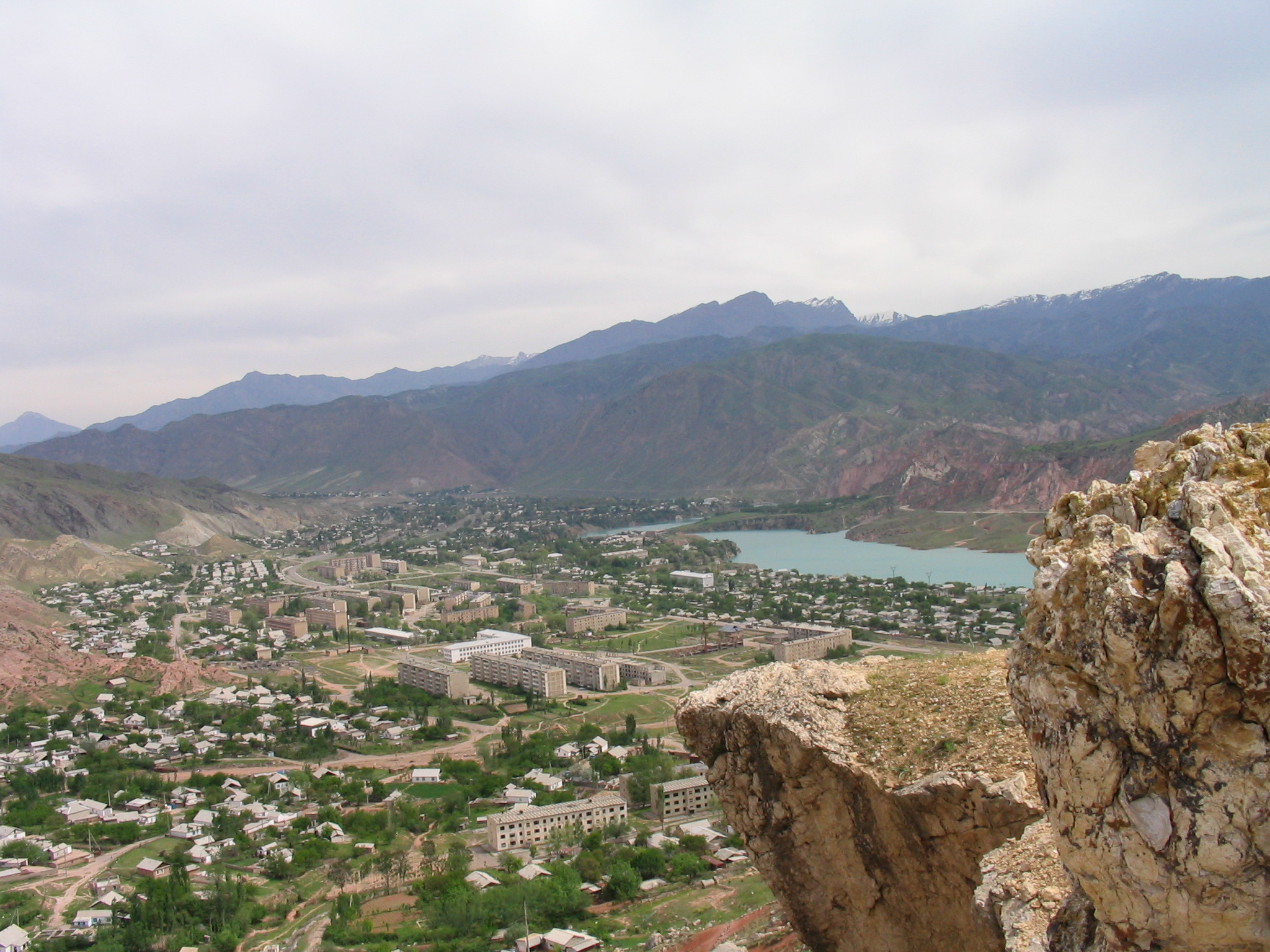 Tashkömür from Crocodile Mountain